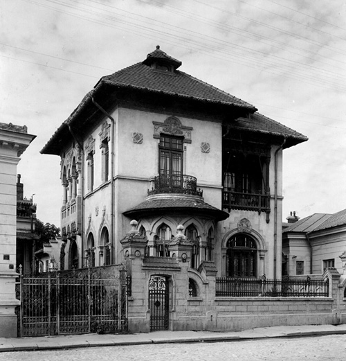 The villa of Zaharia Leon on the strada Drosescu,à Ploieşti, Judeţul Prahova, Roumanie. The villa has been completely destroyed by the American bombardments of 1943-44. This street is nowadays (2010) named strada C.T. Grigorescu. The house that has been built at the same place has partially preserved the wall and gate of the former original fence. This house was built by Toma T. Socolescu. The building date is unknown: probably between 1920 and 1930. We are the only heirs and descendants of Toma T. Socolescu (died in 1960 in Bucharest) and therefore owner of all his intellectual rights.